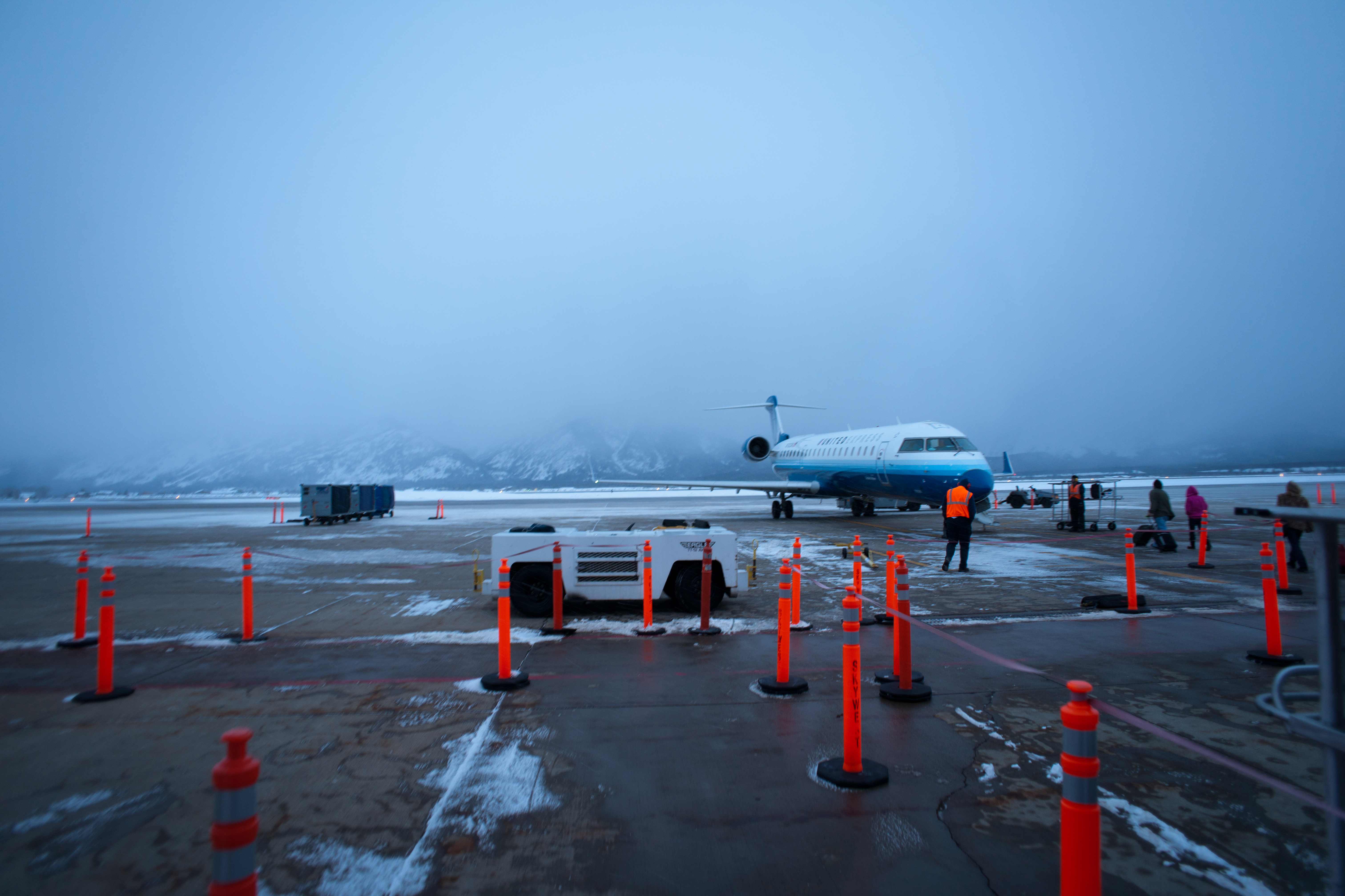 Jackson Hole Airport